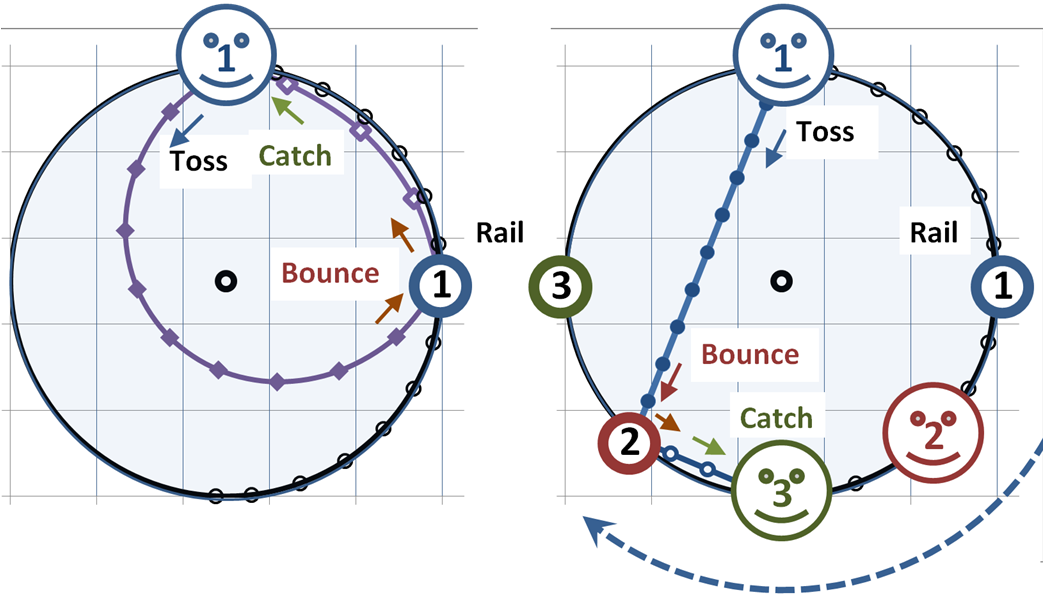 Paths traced by tossed ball on rotating carousel